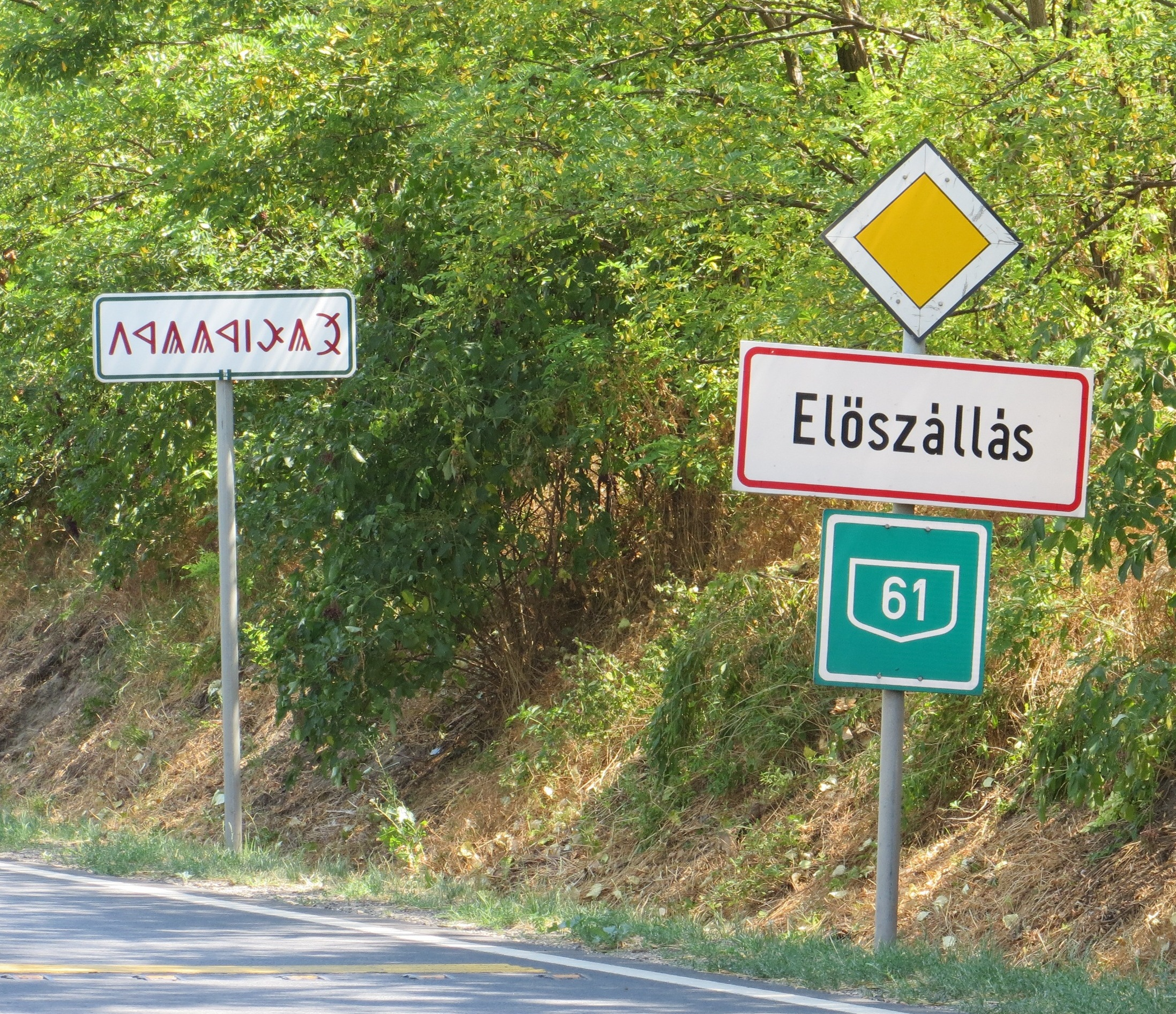 Road signs for Előszállás, Hungary in Roman alphabet and Old Hungarian script